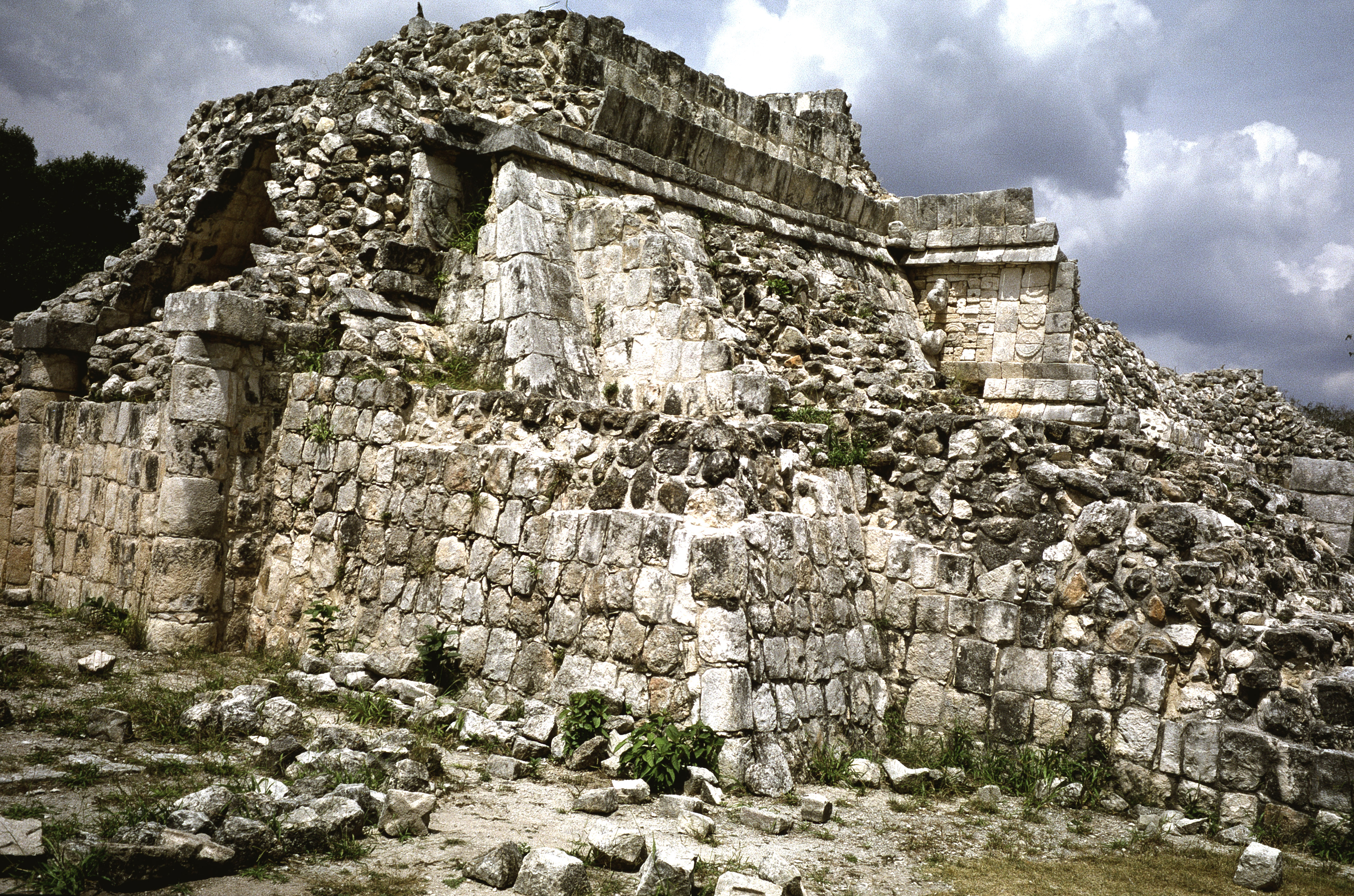 Chichen Itza, Yucatan, Mexico: building 3D5